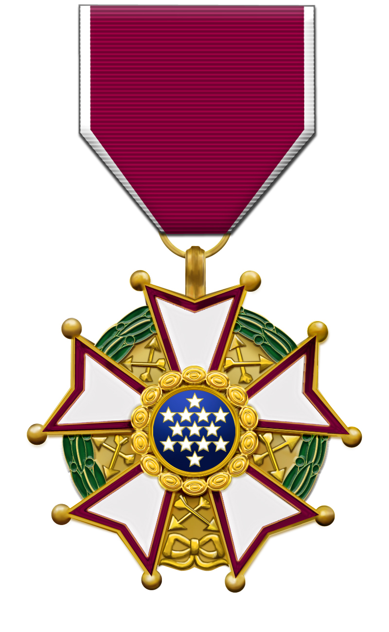 Stylized drawing of the Legion of Merit medal